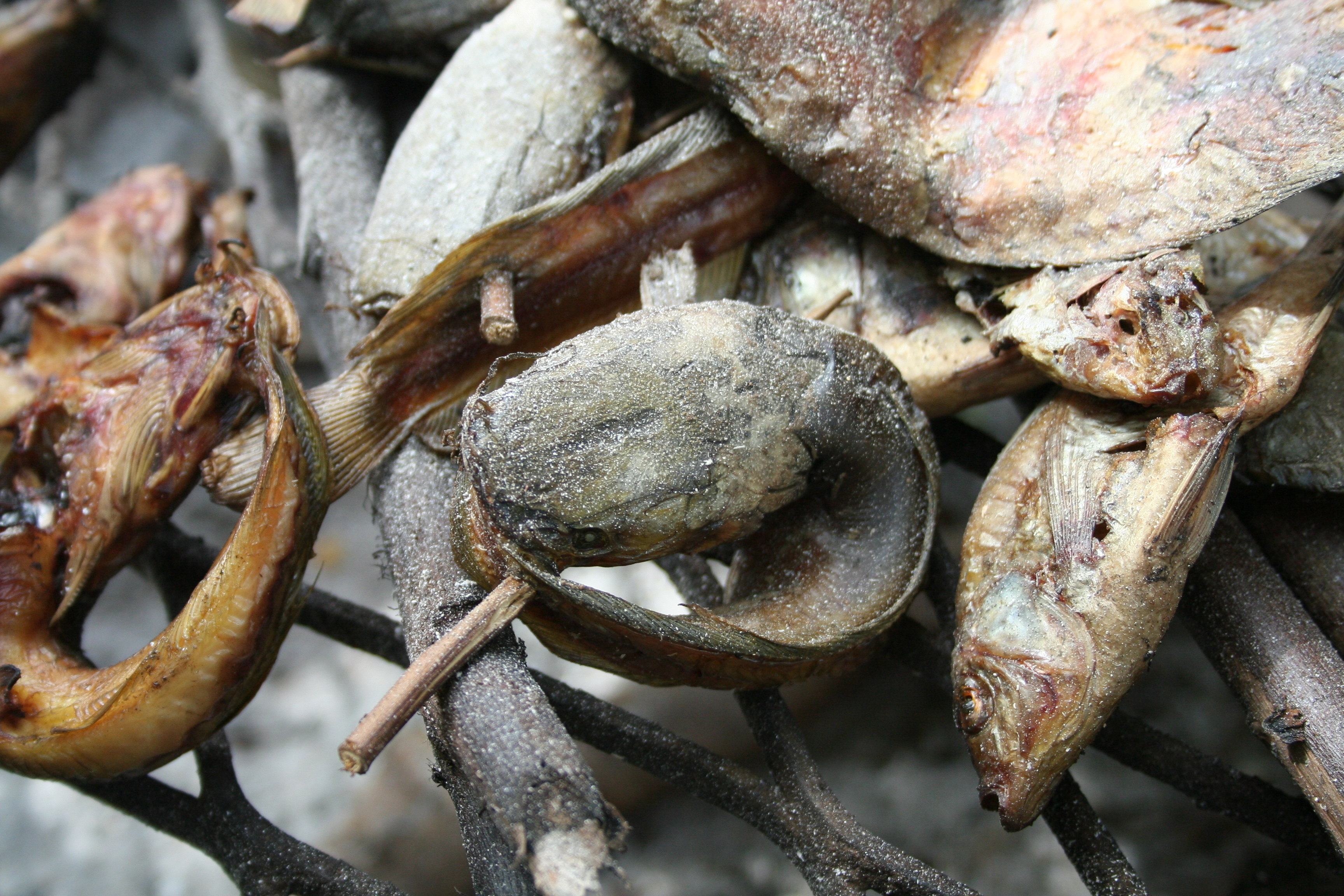 Smoked fish from the Tapoa river, Tapoadjerma, Burkina Faso.